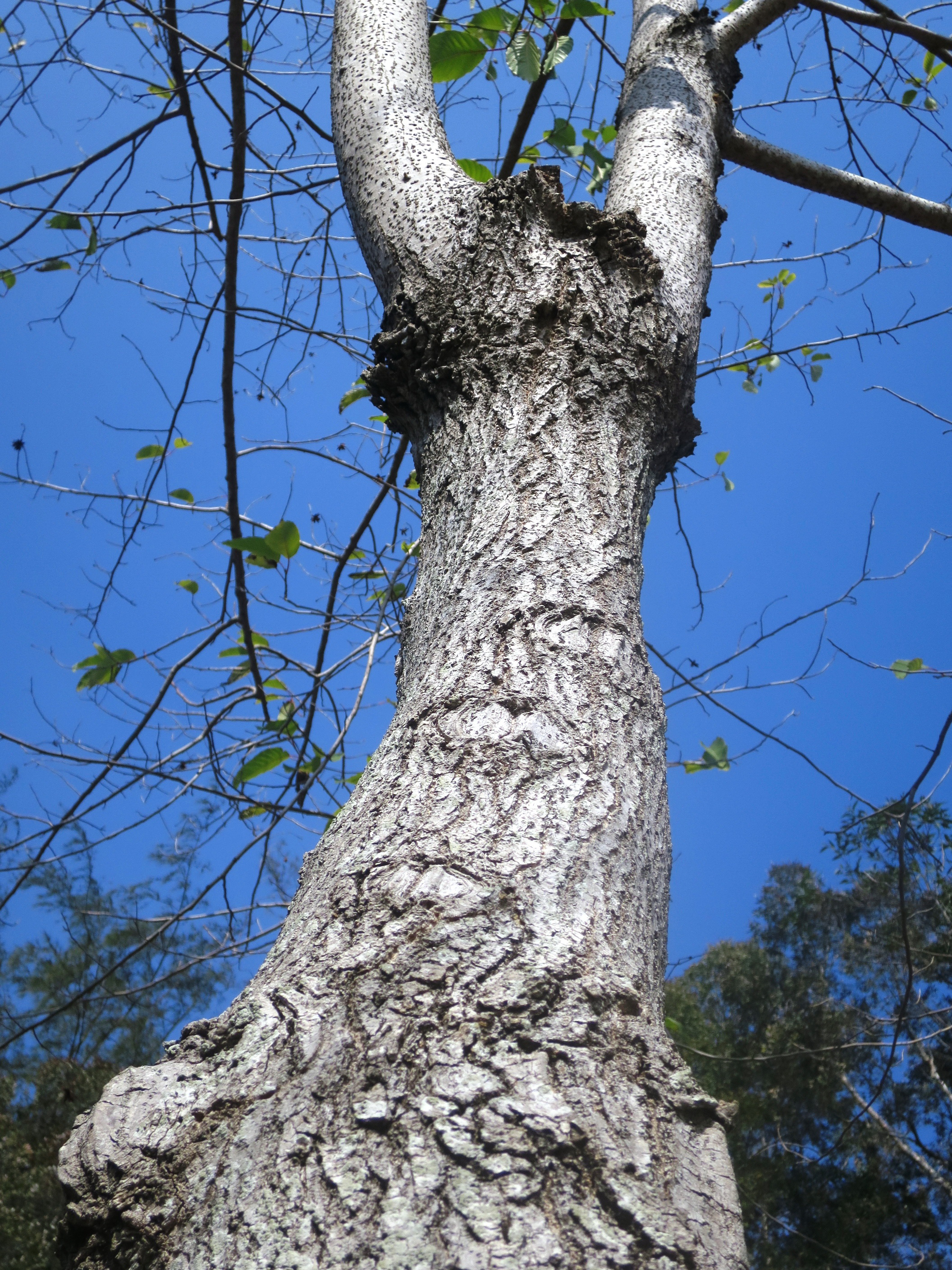 A planted Camptotheca acuminata in Hong Kong in winter.